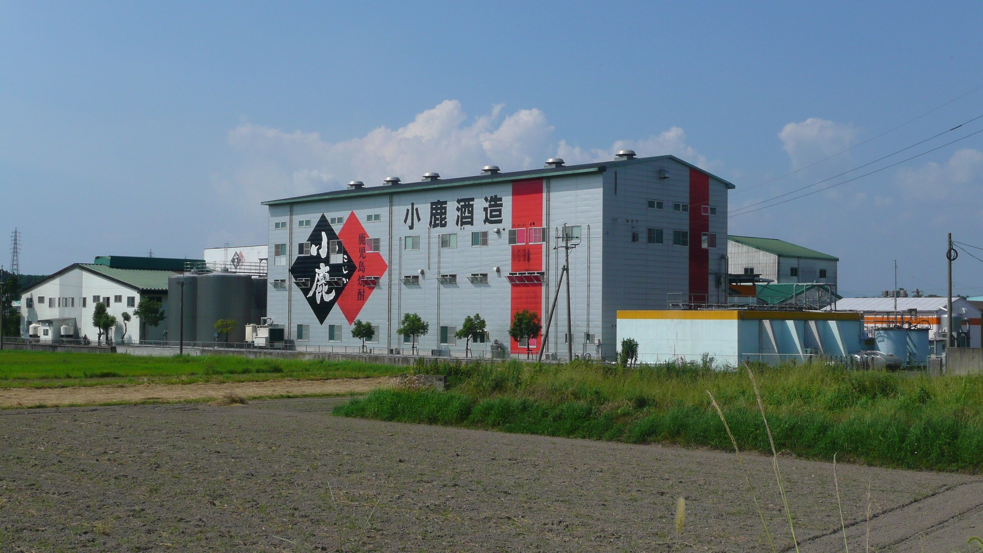 Kojika Shuzo Main Office (Shōchū - Aira, Kanoya City, Kagoshima, Japan)